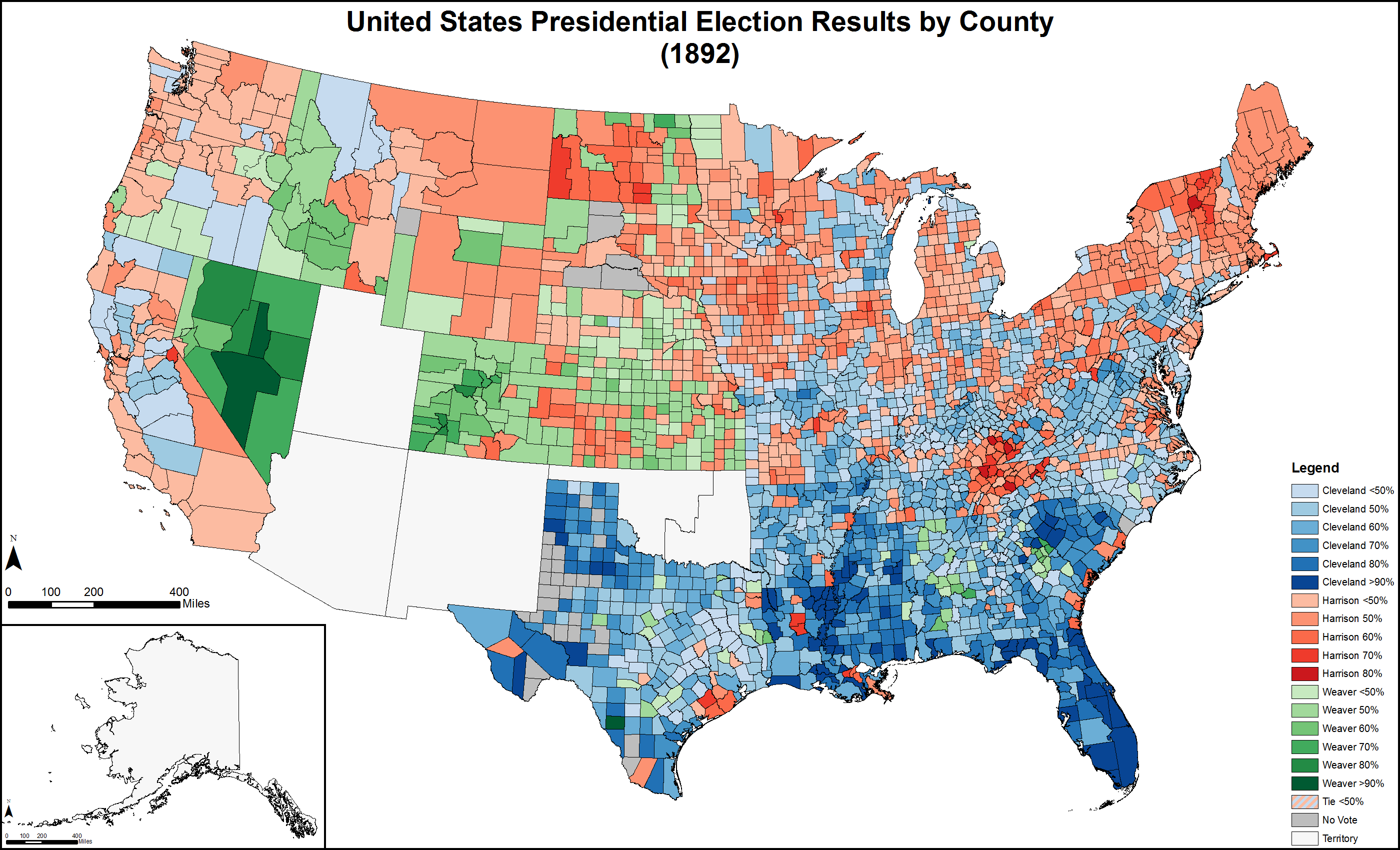 Presidential election results by county (1892). Colors based on Colorbrewer 2.0.